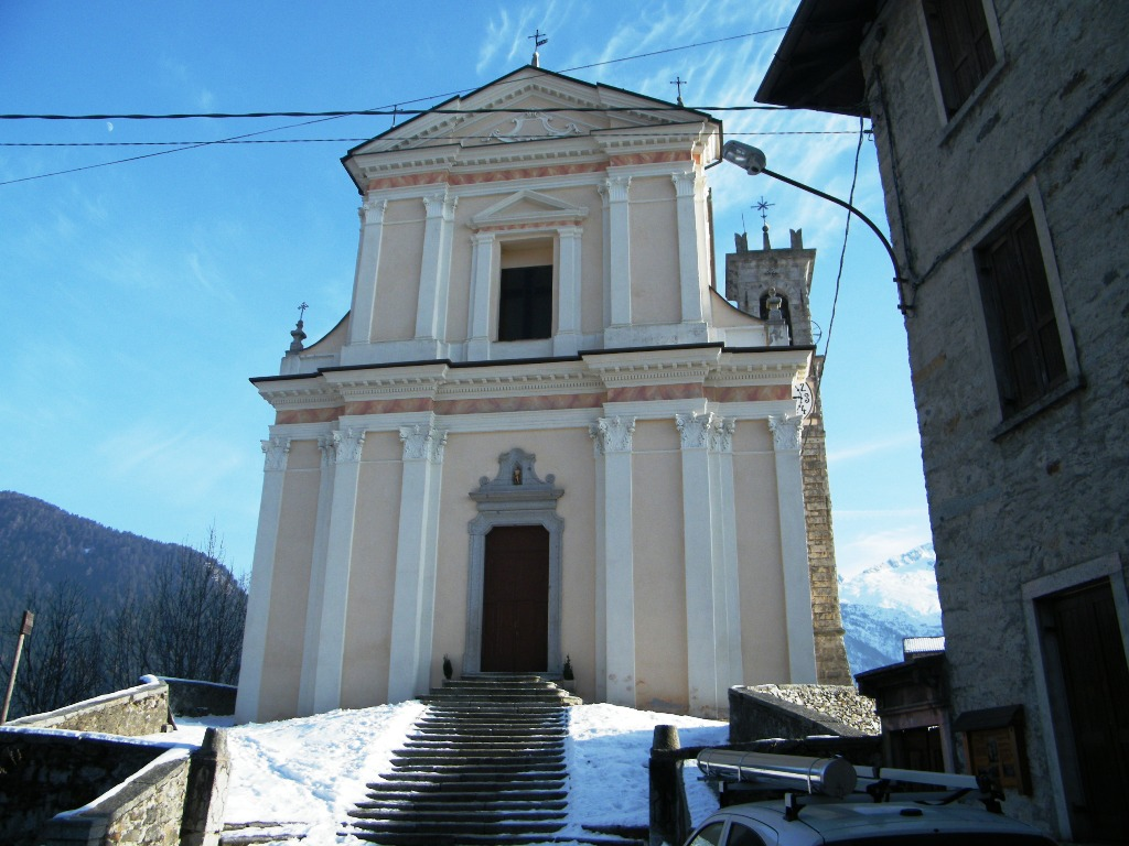 Church of St John the Baptist. Saviore dell'Adamello, Val Camonica.